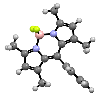 "Crystal structure" of phenyl-tetramethylBODIPY from doi 10.1039/C4DT00395K